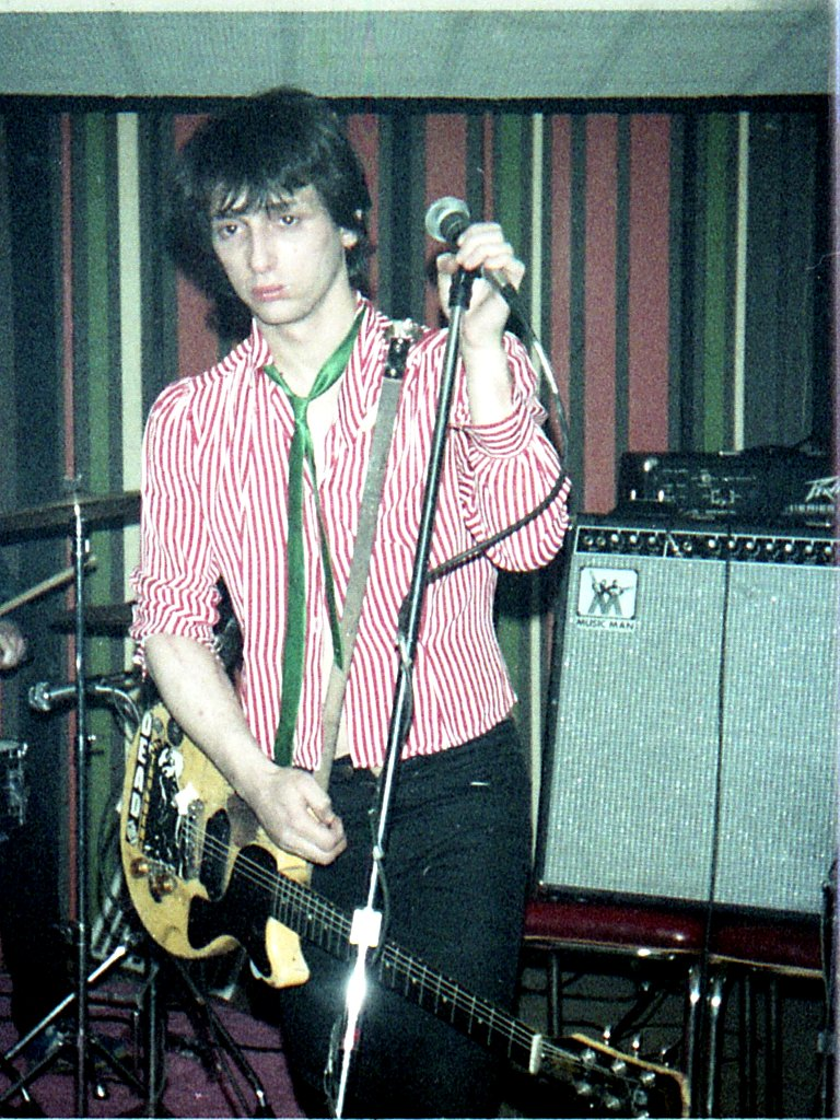 Johnny Thunders (New York Dolls, Heartbreakers) performing at the Ann Arbor, Michigan, VFW Post in 1979. This is a scan of an old 110 negative. It isn't top quality but it lacks the scuff marks found on my earlier scan of an autographed 4x6 print.